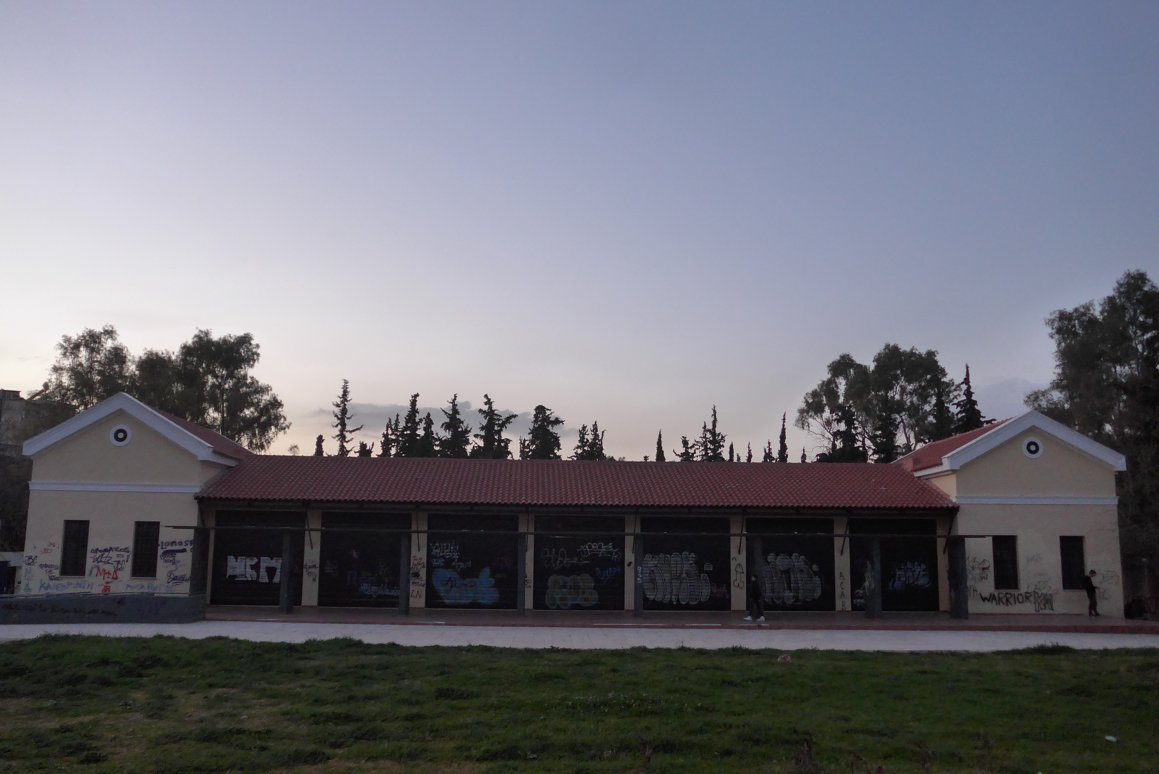 National Resistance Memorial, Kaisariani, Greece. Faced looking at the west.